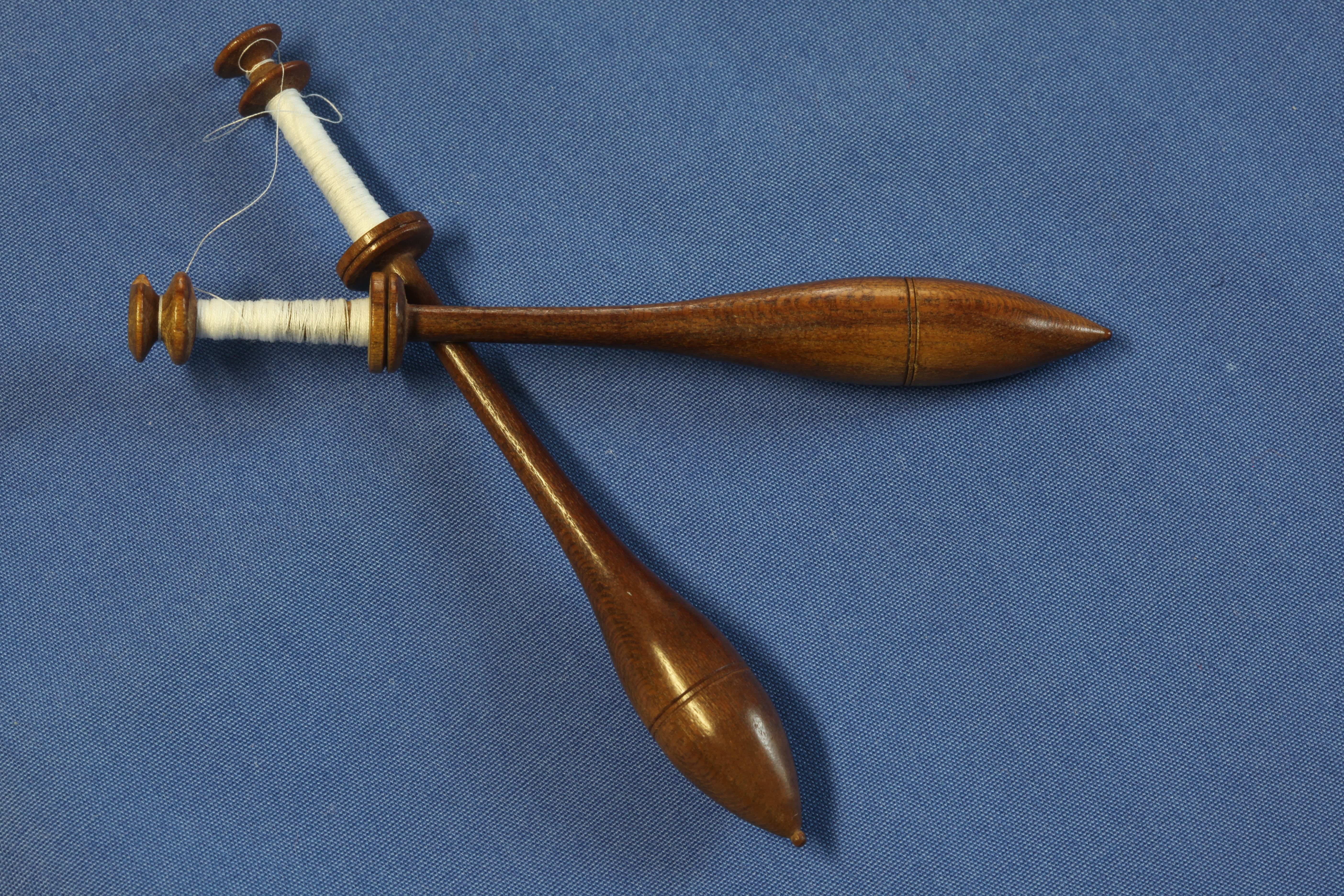 Bobbin lace from Neuchatel, Switzerland. The making of this document was supported by Wikimedia CH.(Submit your project!) For all the files concerned, please see the category Supported by Wikimedia CH.